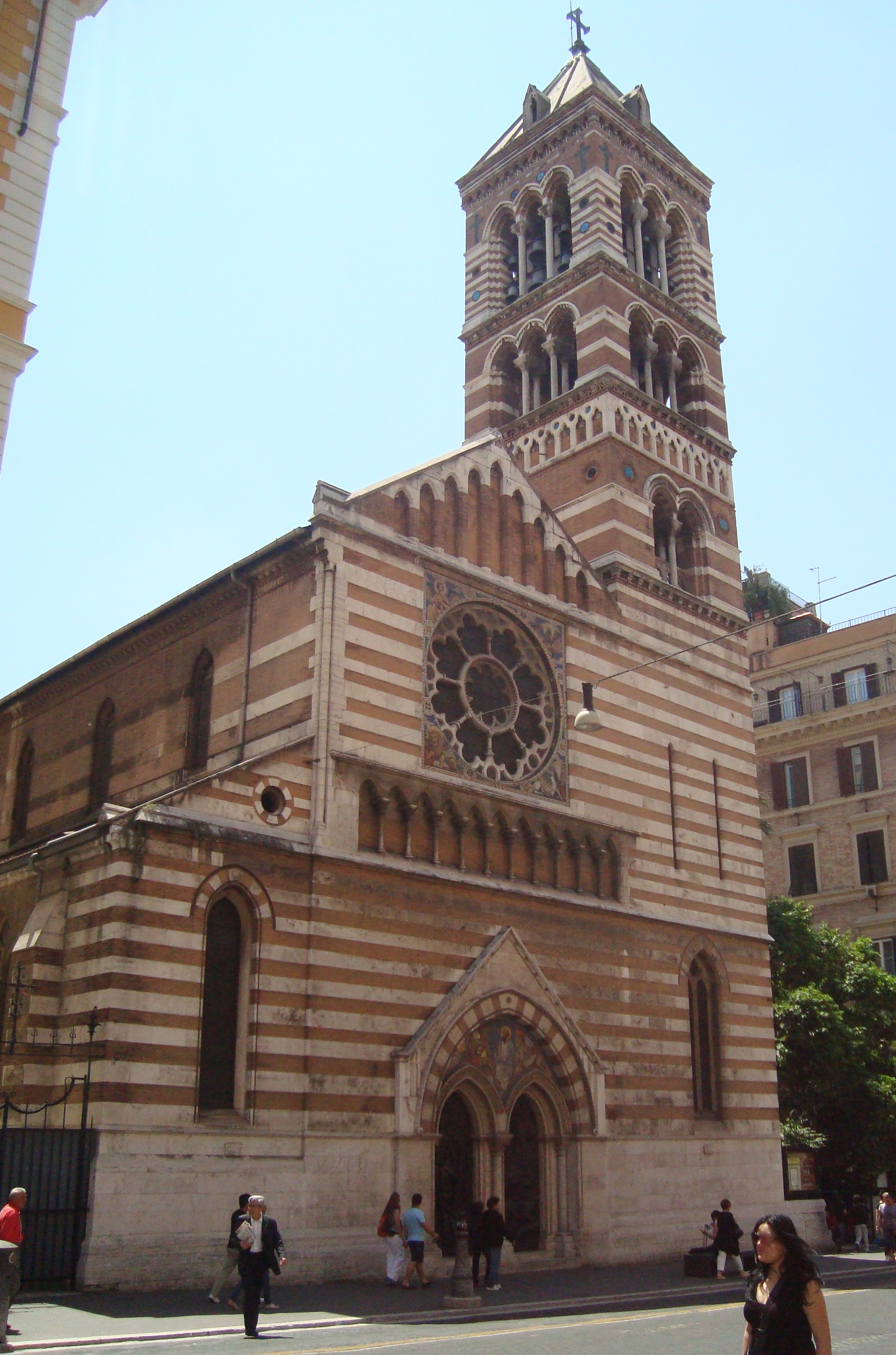 The church San Paolo dentro le Mura in Rome